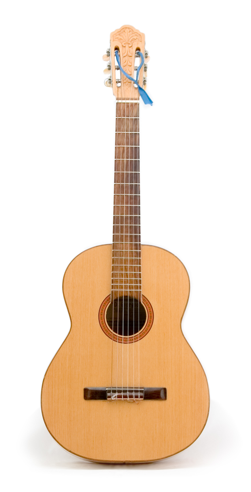 "Di Giorgio classic guitar", model "Amazonia", made in Brazil.